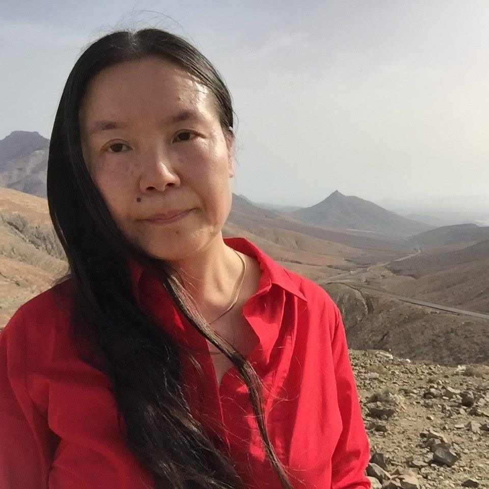 Poet and cosmologist Yun Wang in Fuerteventura in September 2017.